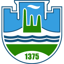 Coat of Arms of the city and municipality of Paraćin, Serbia